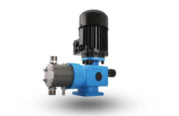 sera piston dosing pump RF409.2-K